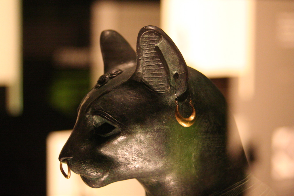 Photos from a 24 visit to London. Most of our time was in the British Museum, where we got to see the wonderful Chinese terra cotta army (no photos from that, though). Also saw a wonderfully fun play (39 Steps - no photos there either), and the £800M rennovation of St. Pancras (definitely photos).